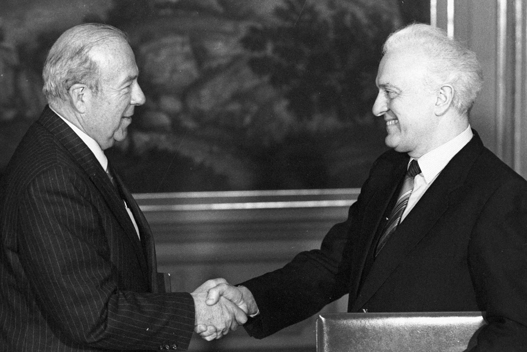 “U.S.Secretary of State George P Shultz and Eduard Shevardnadze on visit to USSR”. Soviet Minister of Foreign Affairs Eduard Shevardnadze (right) the U.S. Secretary of State George P Shultz (third from left) after signing the Agreement between the United States of America and the Union of Soviet Socialist Republics Concerning the Exploration and Use of Outer Space for Peaceful Purposes.